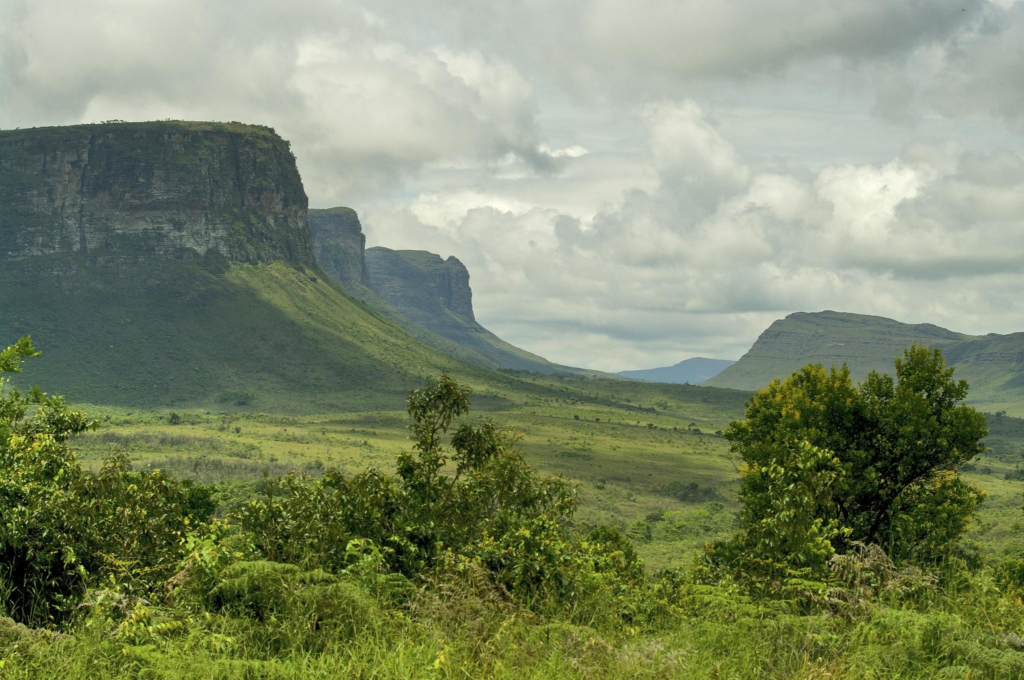 Chapada Diamantina - Bahia - Brazil